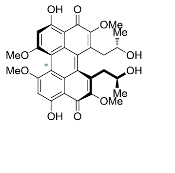 Multiply Coupled Biaryls